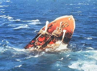 The Argo Merchant, breaking apart northwest of Nantucket Island.